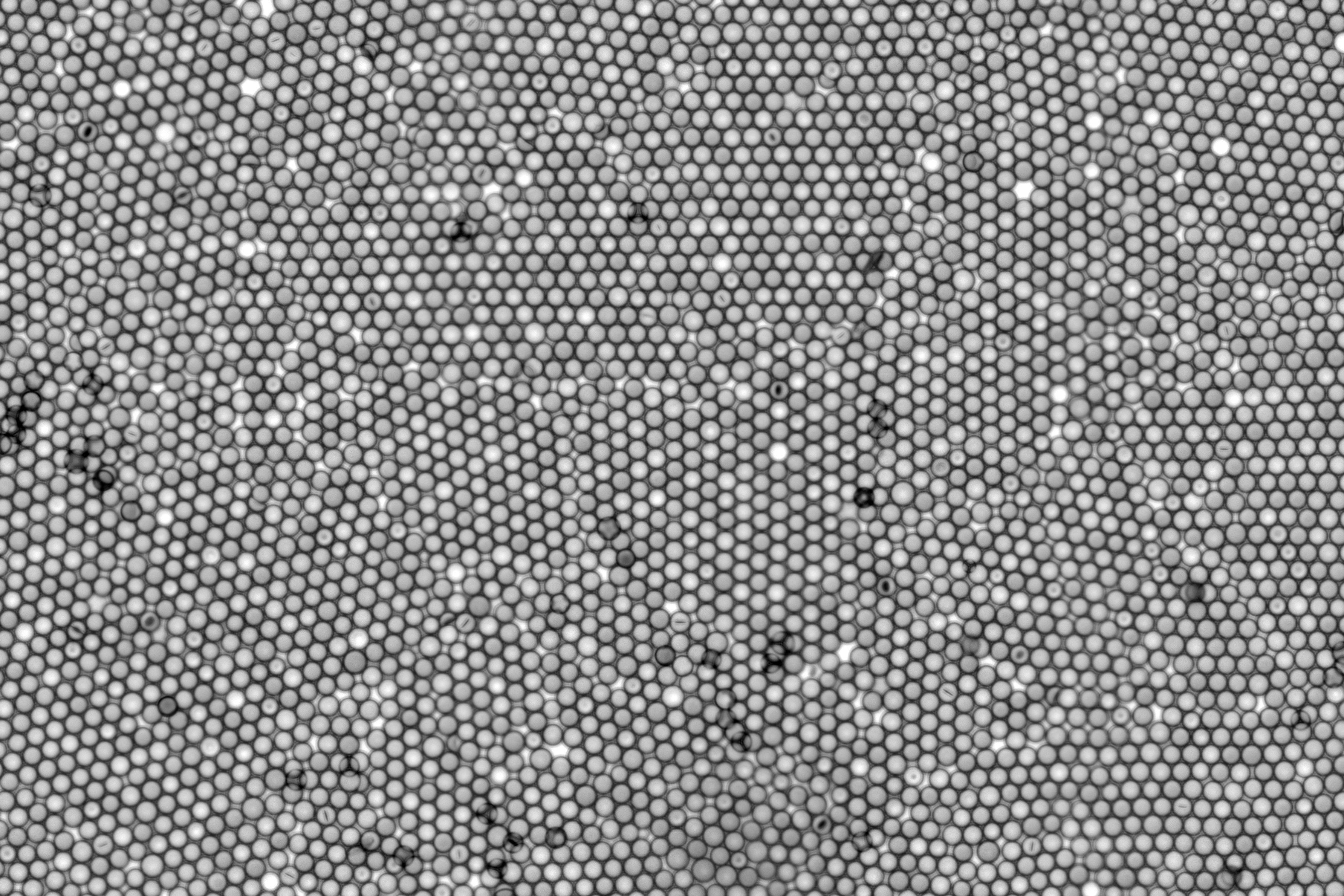 The structure of crystaline domains in a 2D solid-in-liquid colloid as viewed by bright field light microscopy. Each spherical glass particle is 10 μm in diameter and suspended in water.